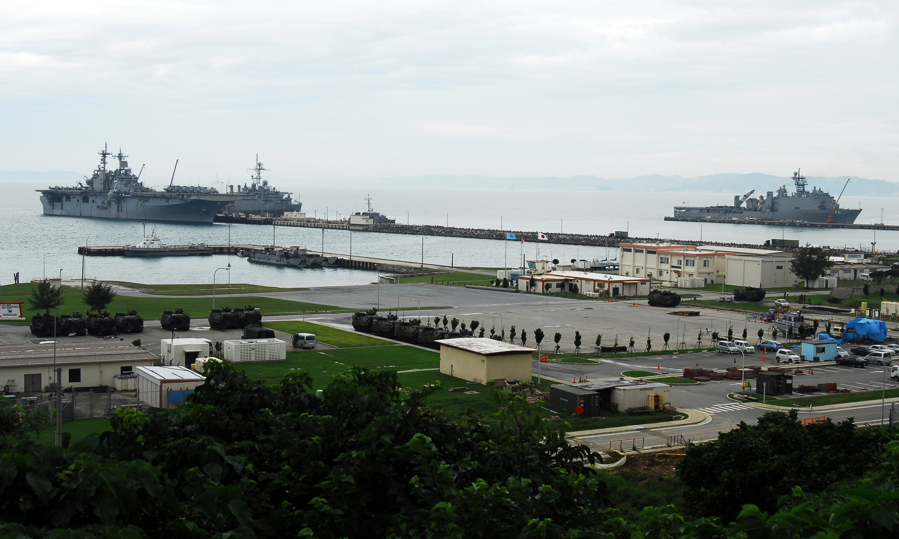 OKINAWA, Japan (June 15, 2009) The amphibious assault ship USS Essex (LHD 2), the amphibious transport dock ship USS Denver (LPD 9) and the amphibious dock landing ship USS Tortuga (LSD 46) are moored pierside at White Beach Naval Facility in Okinawa, Japan as the 31st Marine Expeditionary Unit loads gear and personnel before deploying for Talisman Sabre 2009. (U.S. Navy photo by Lt. Cmdr. Denver Applehans/Released)